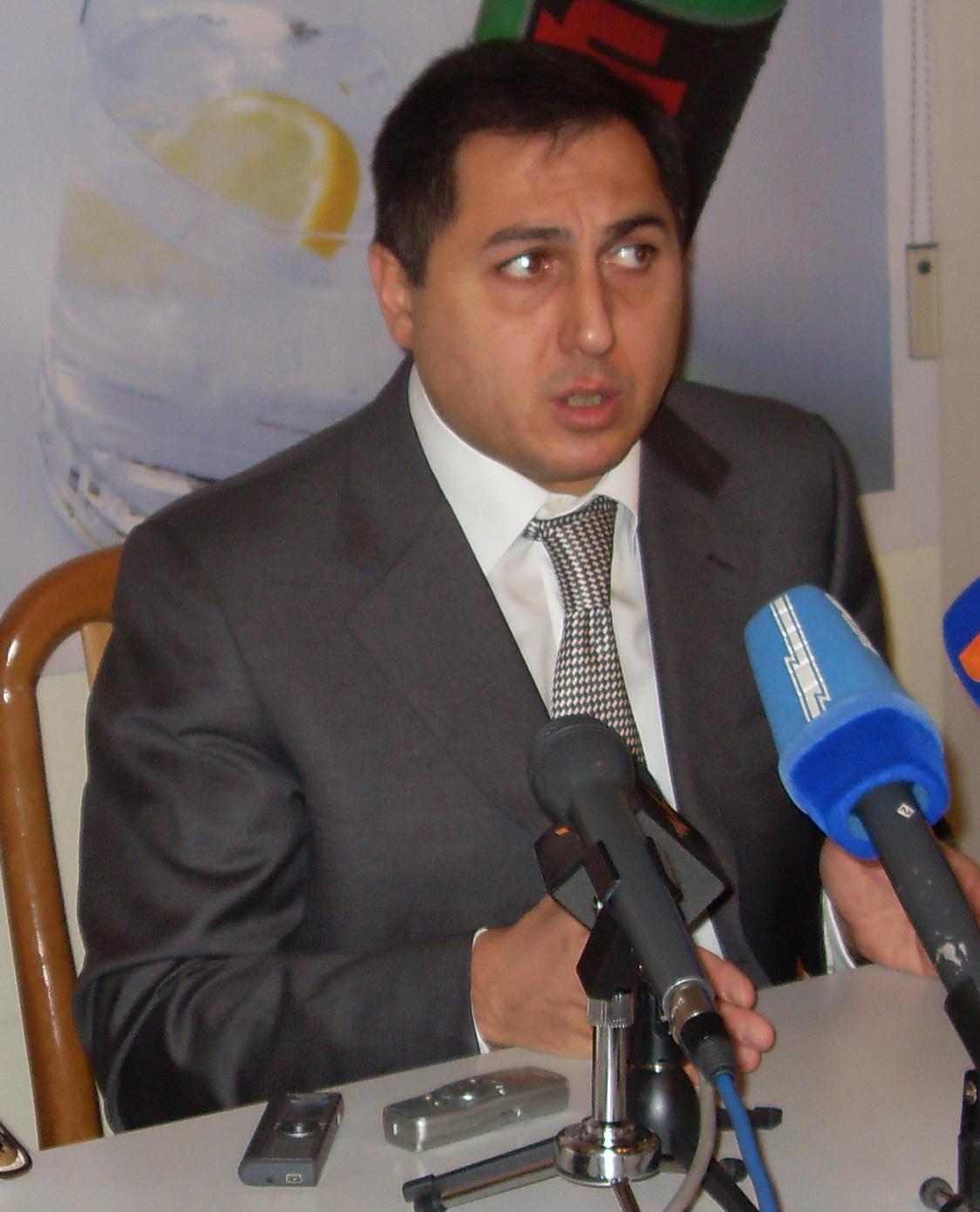 Armen Harutyunyan, the former ombudsman of Armenia and the current Regional Representative of the UN High Commissioner for Human Rights in Central Asia.